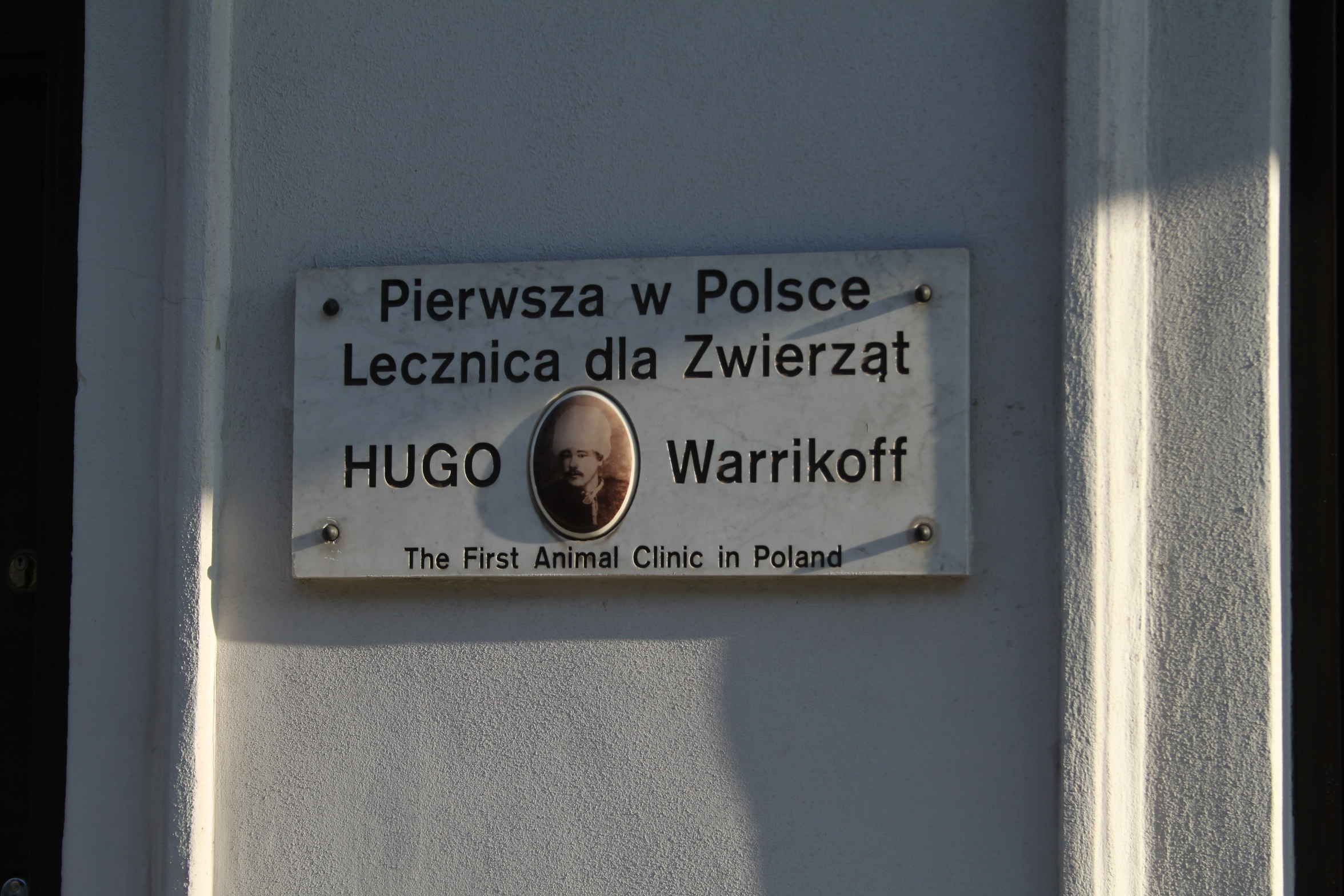 Hugo Warrikoff's animal clinic in Łódź (September 2018)